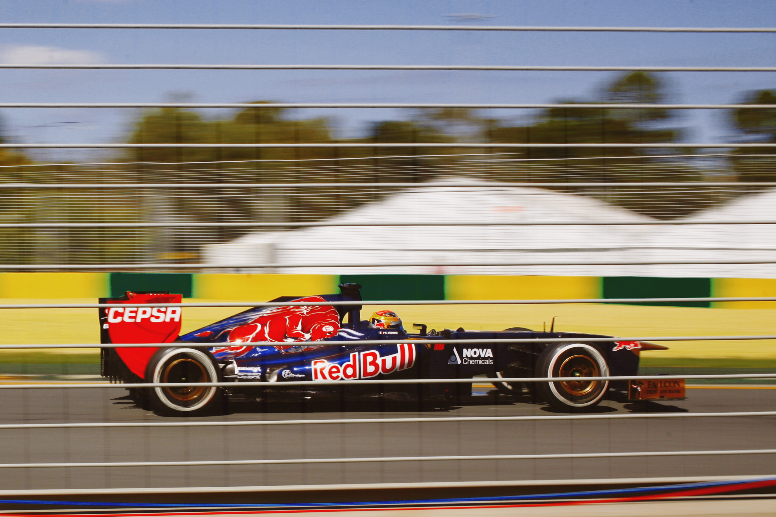 Toro Roso at Formula 1 Melbourne GP 2013